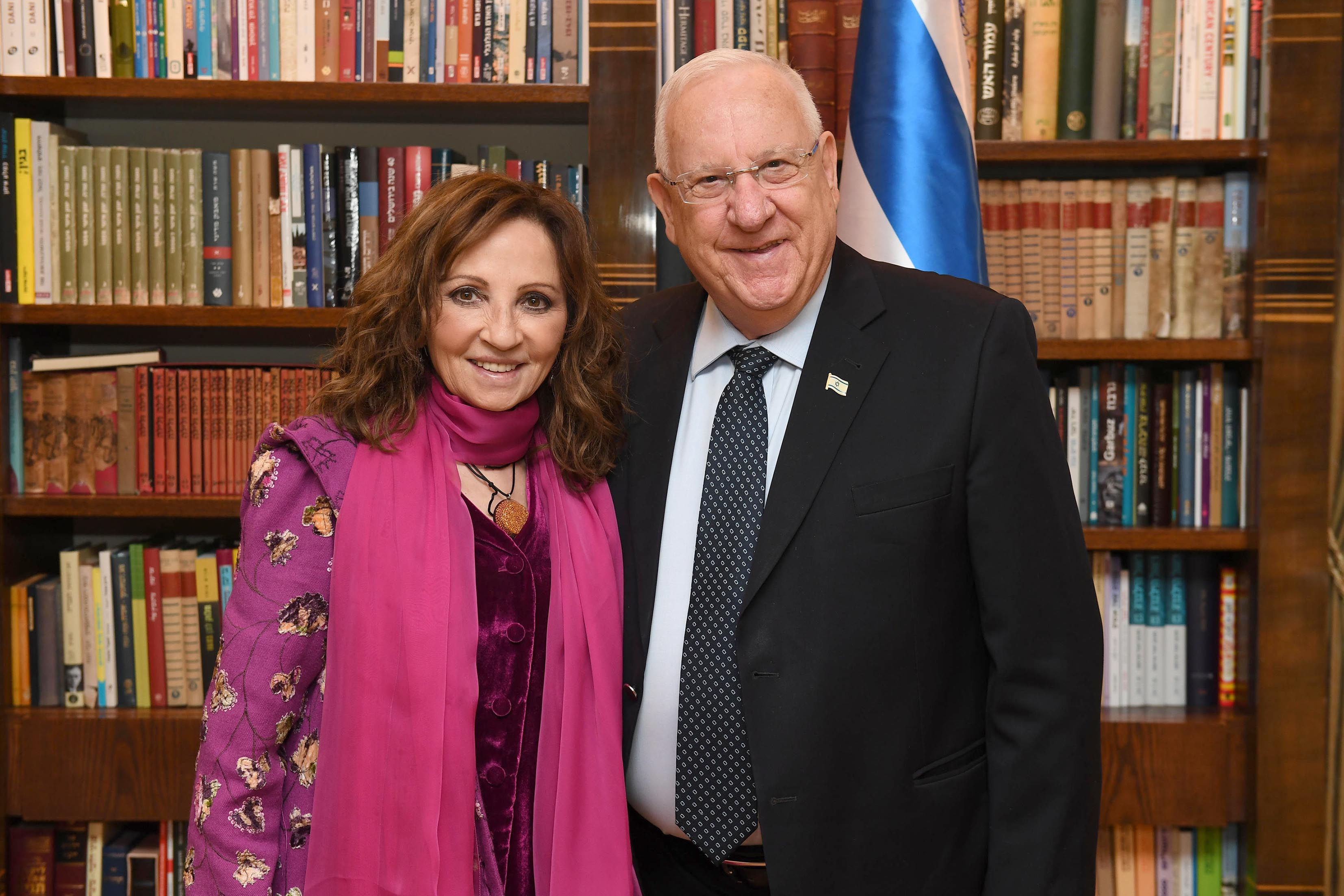 the President of Israel, Reuven Rivlin, meeting with singer Glykeria. Tuesday, February 13, 2018. Photo Credit: Mark Neyman / GPO.